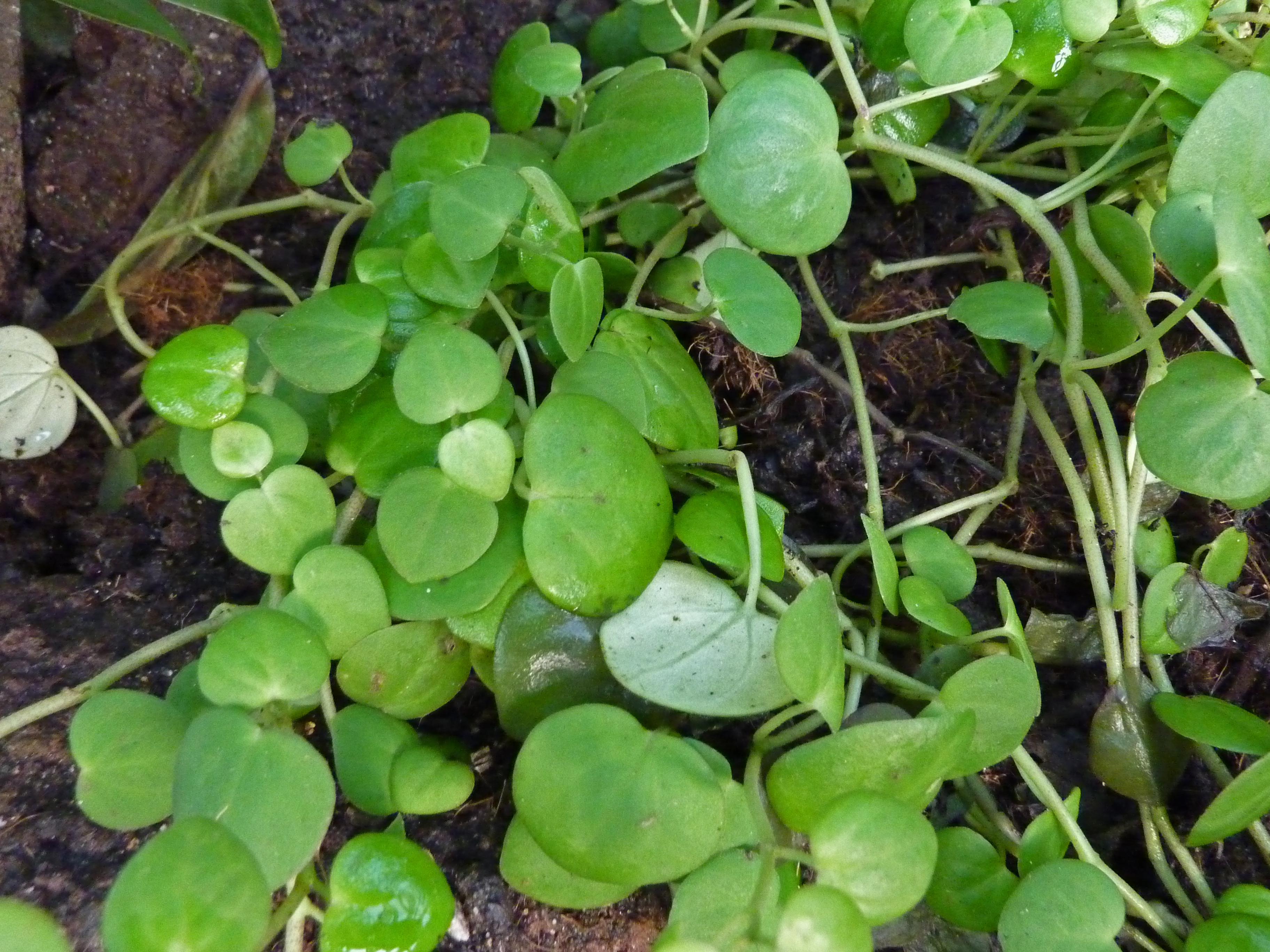 Peperomia serpens in the Botanical Garden, Berlin